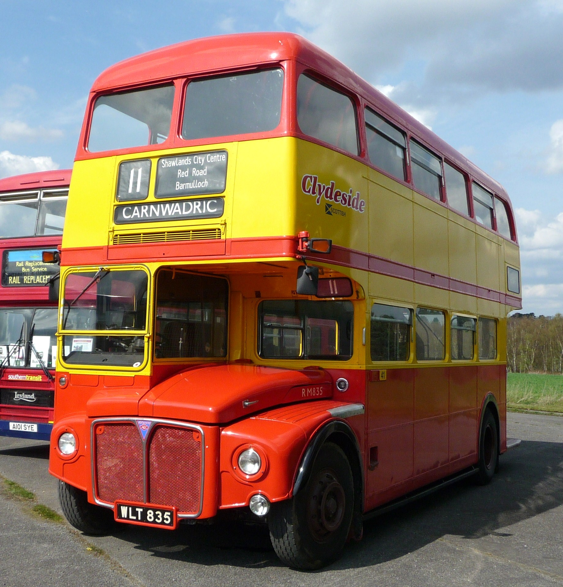 Preserved Clydeside Scottish Routemaster bus RM835 (reg. WLT 835), pictured at the 2009 Cobham bus rally at Wisley Airfield near Cobham, Surrey.